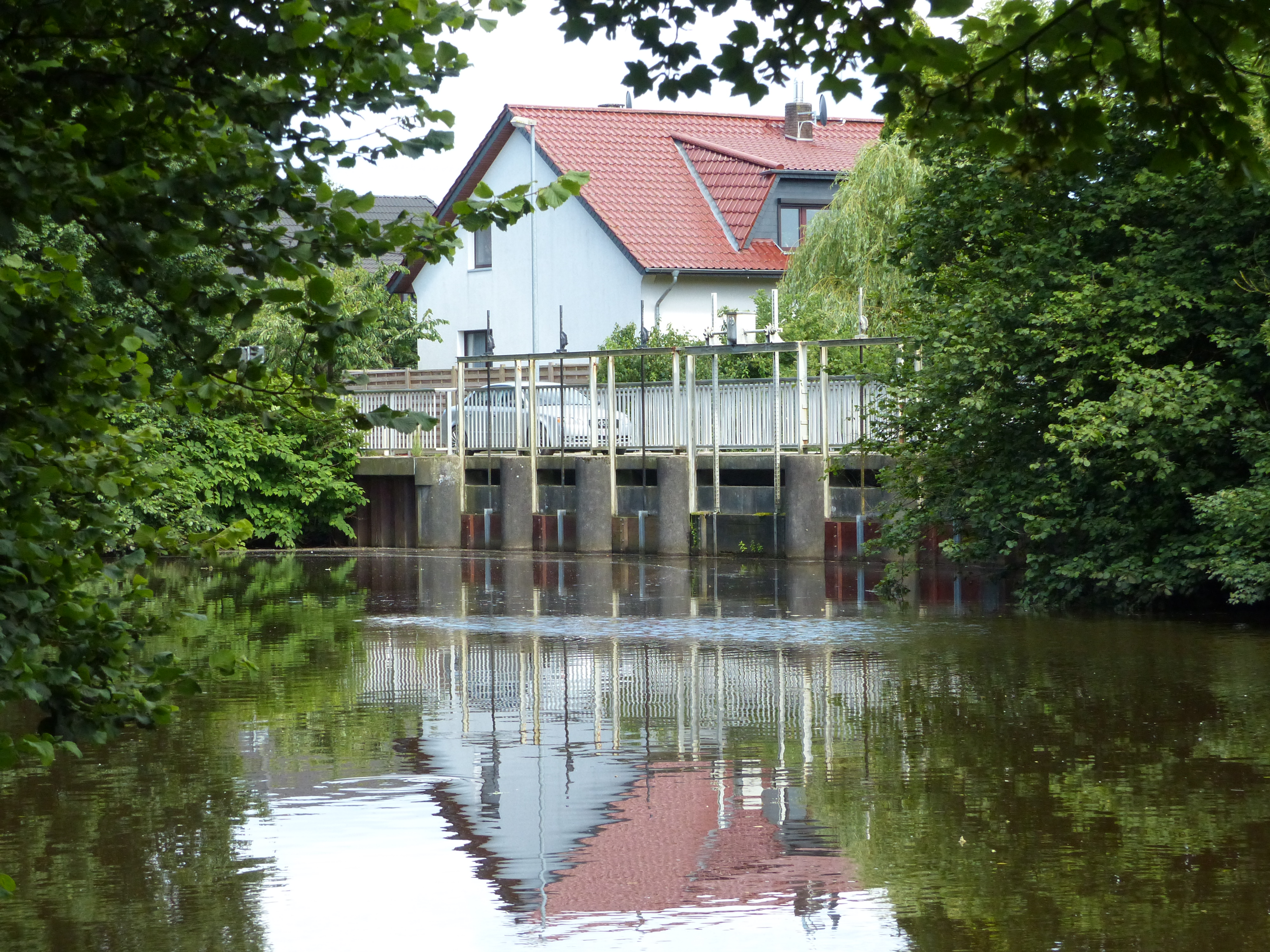 permamently closed barrier (term: verlaat) of Ollen river at Camper Brücke in Berne, seen across Berne river